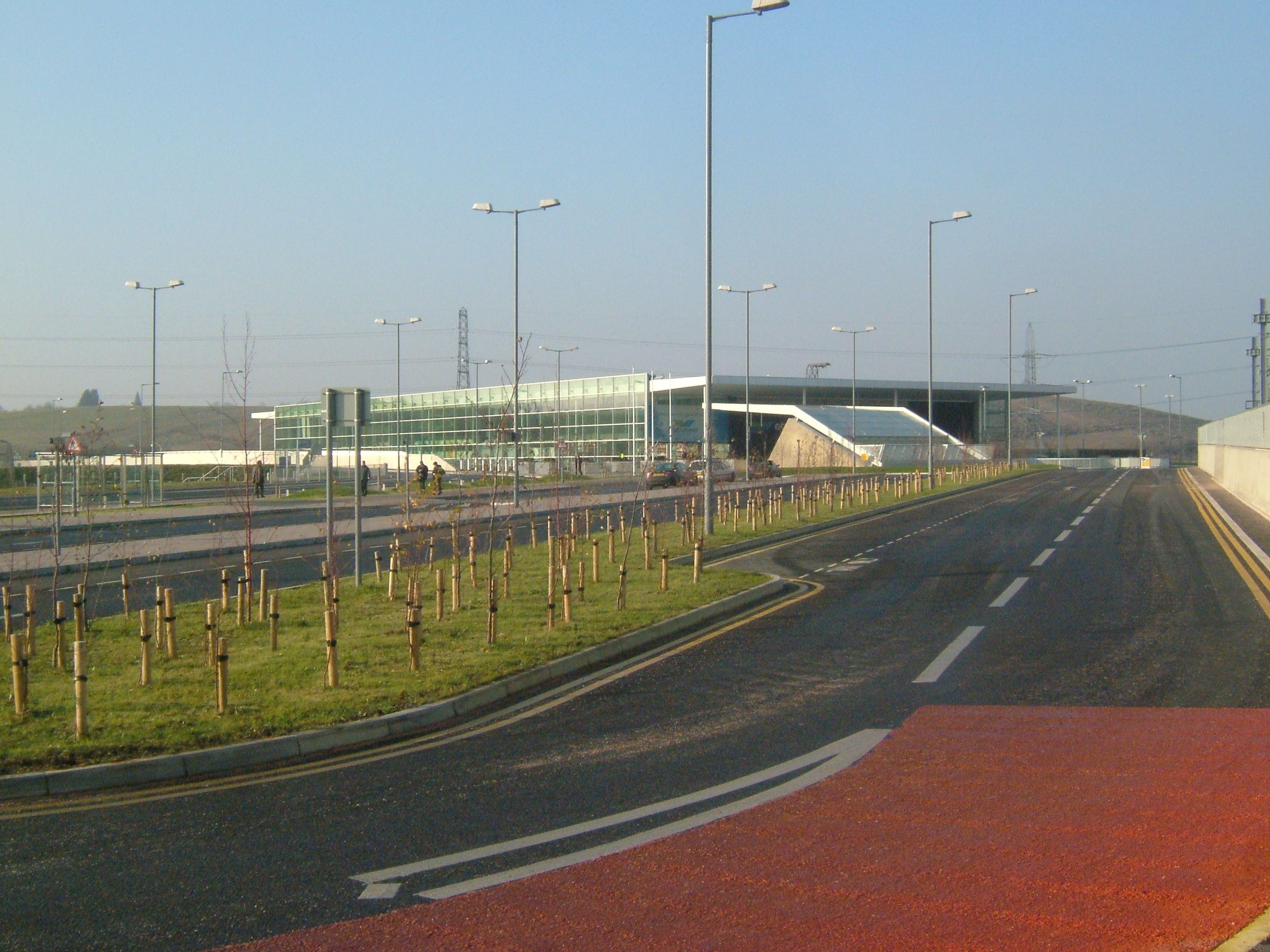 Ebsfleet International railway station. Station Approach